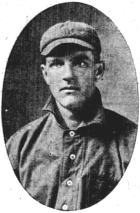 Professional baseball player Pete Lister